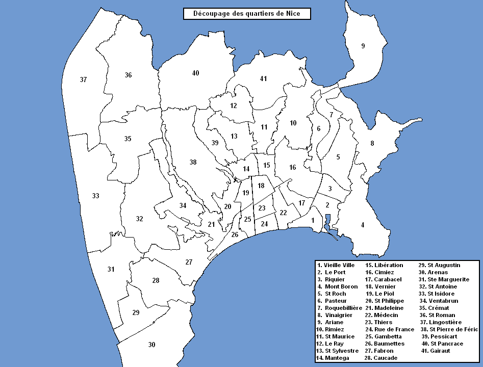 Map of districts of Nice, France.